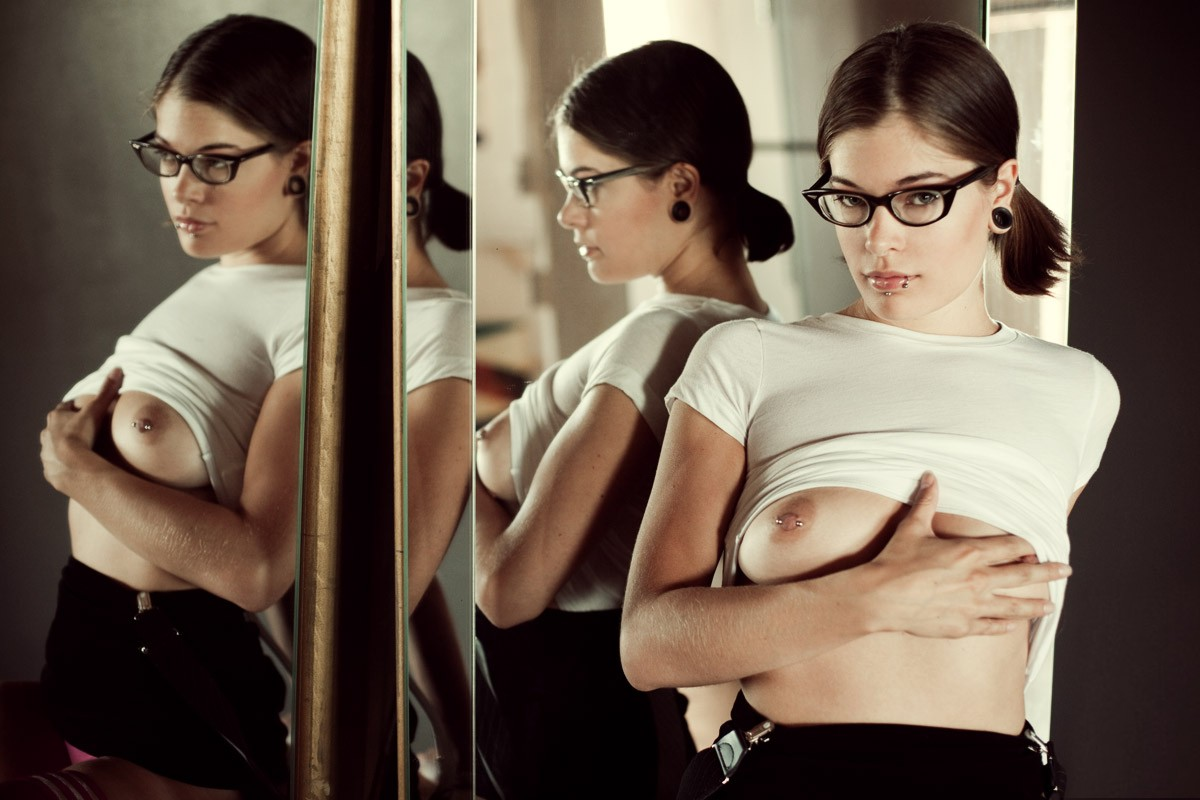 Lavonne